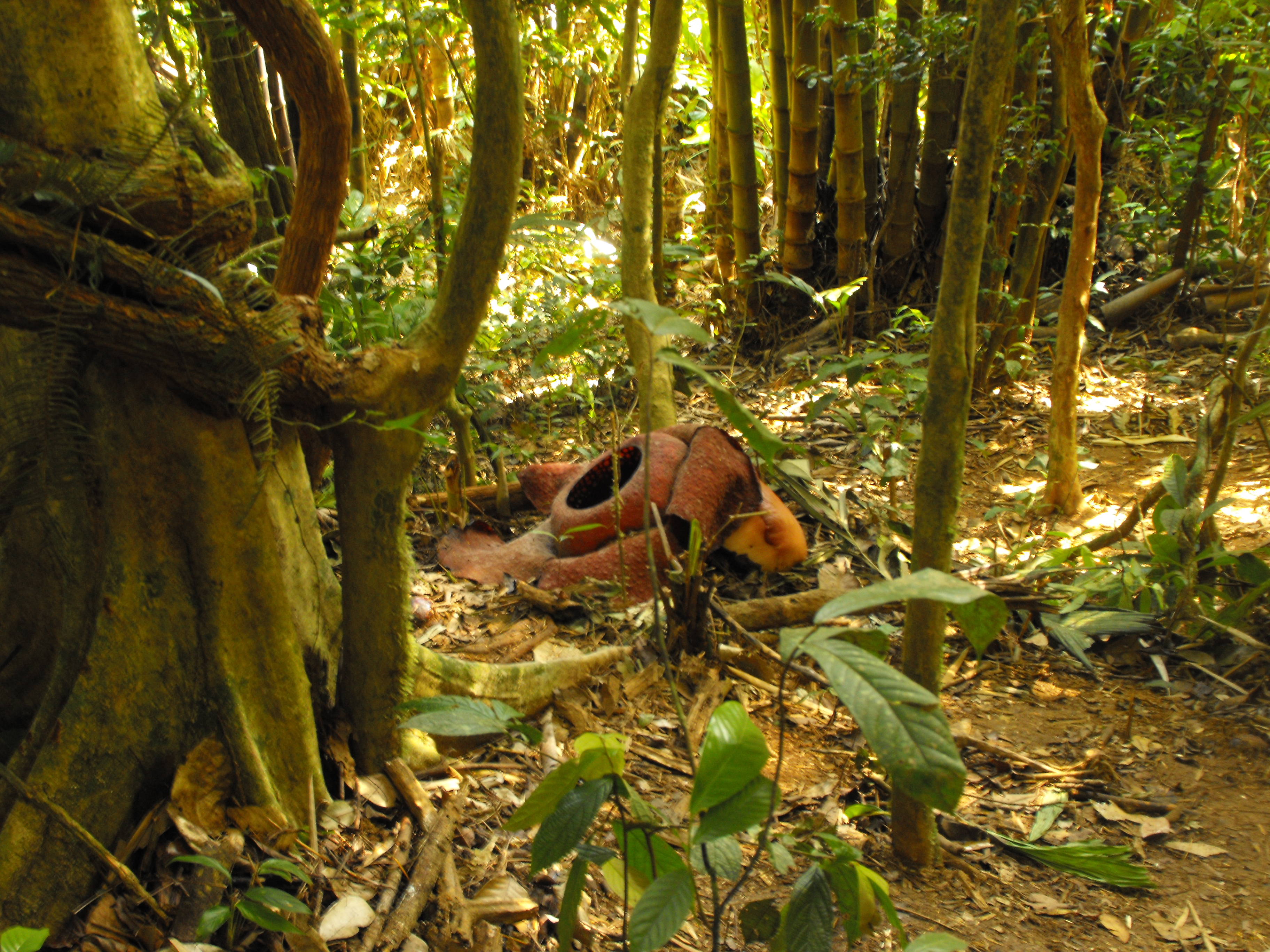 Rafflesia flower - Cameron Highlands - Malaysia